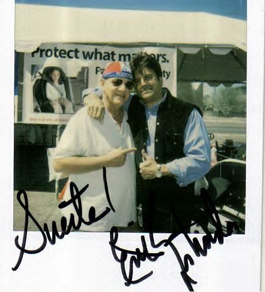 Actor Erik Estrada with the Marine.